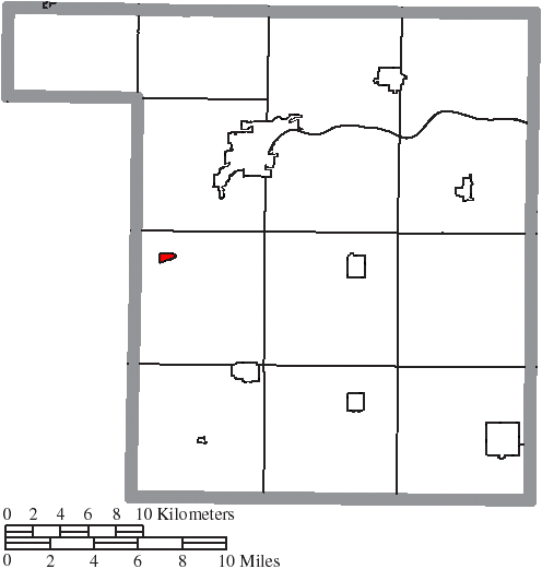 Map of the municipal and township boundaries of Henry County, Ohio, United States, as of the 2000 census, with the location of the village of Florida highlighted. Township borders are shown only in unincorporated areas in order to differentiate incorporated and unincorporated areas more clearly.